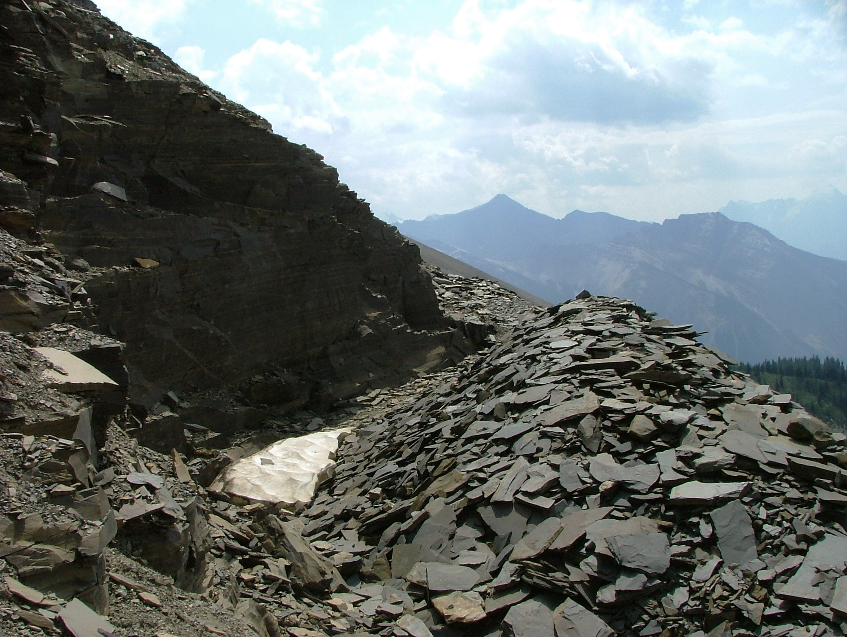 The Raymond Quarry on Fossil Ridge